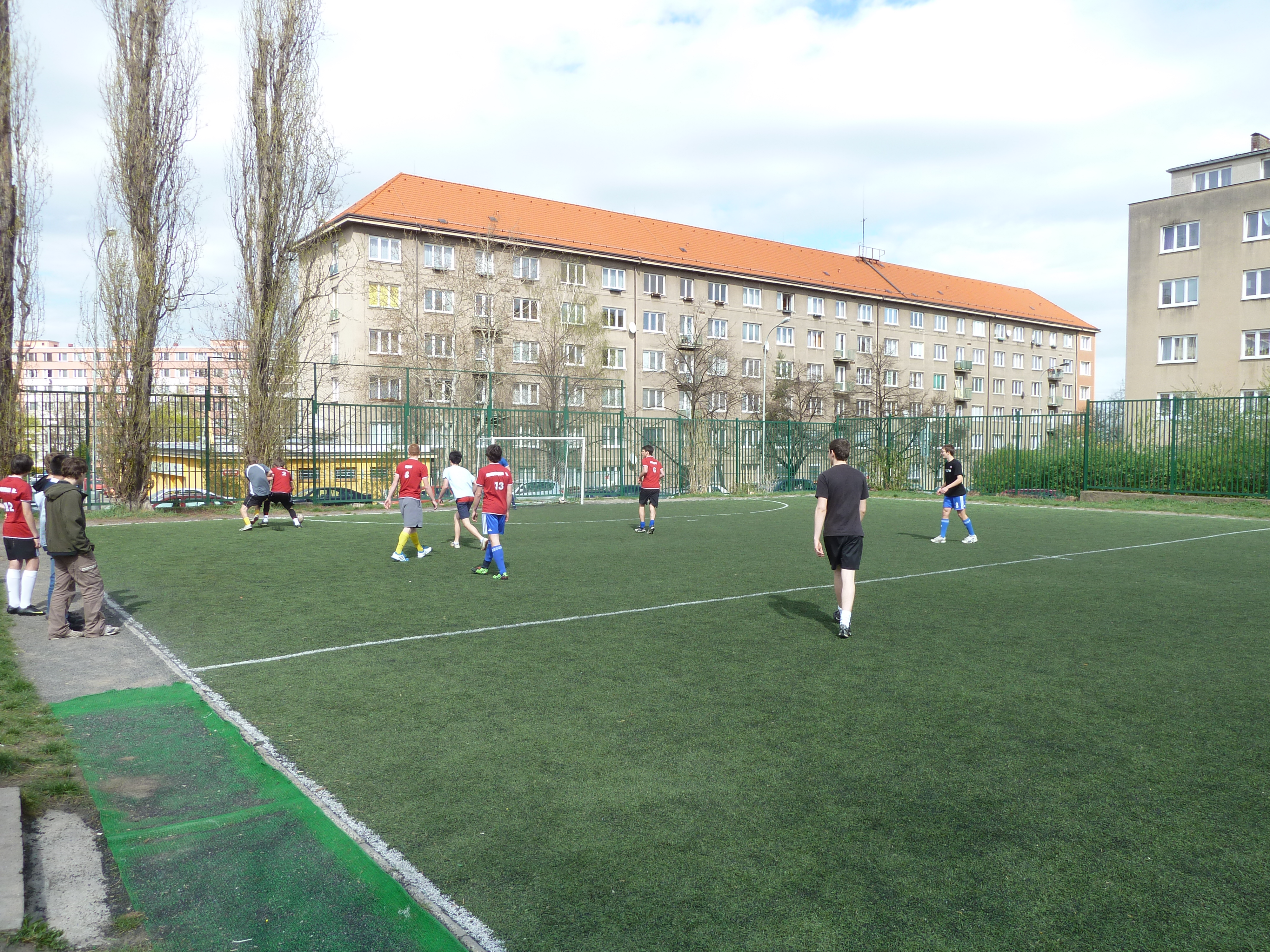 Gymnázium Budějovická, Prague – football pitch, "GyBu League"